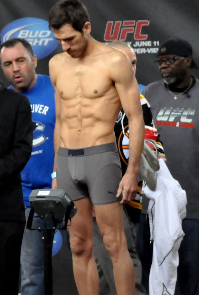 Kenny Florian at the weigh in for the UFC 131.